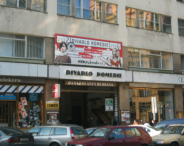 Praha 1, Divadlo Komedie (comedy theatre), Jungmannova 1